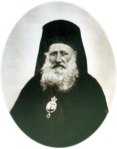 Bishop Auxentios of Veles